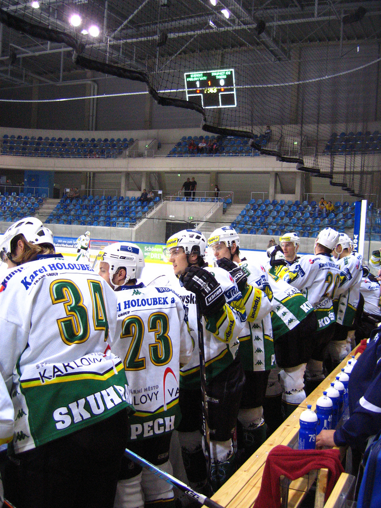 Players of HC Energie Karlovy Vary